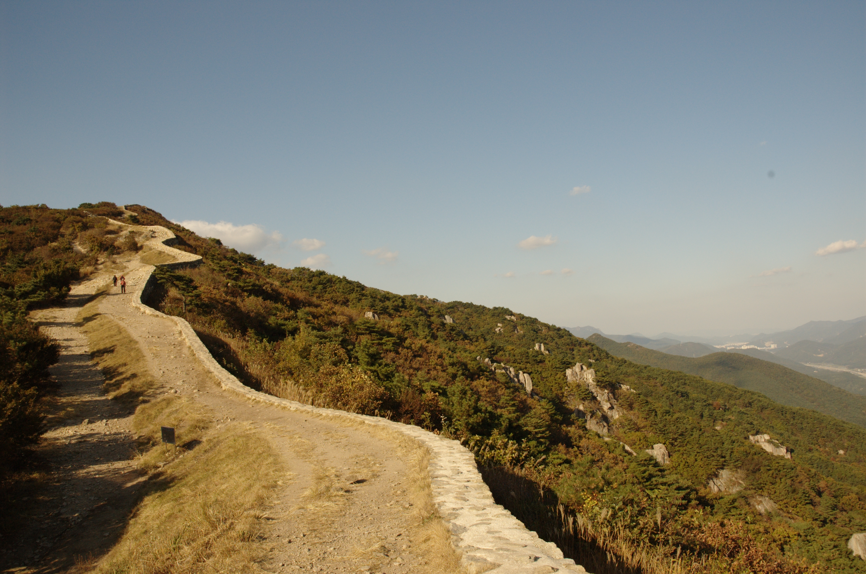 The walls (17km long) and four gates is everything what left from the fortress, unfortunately.